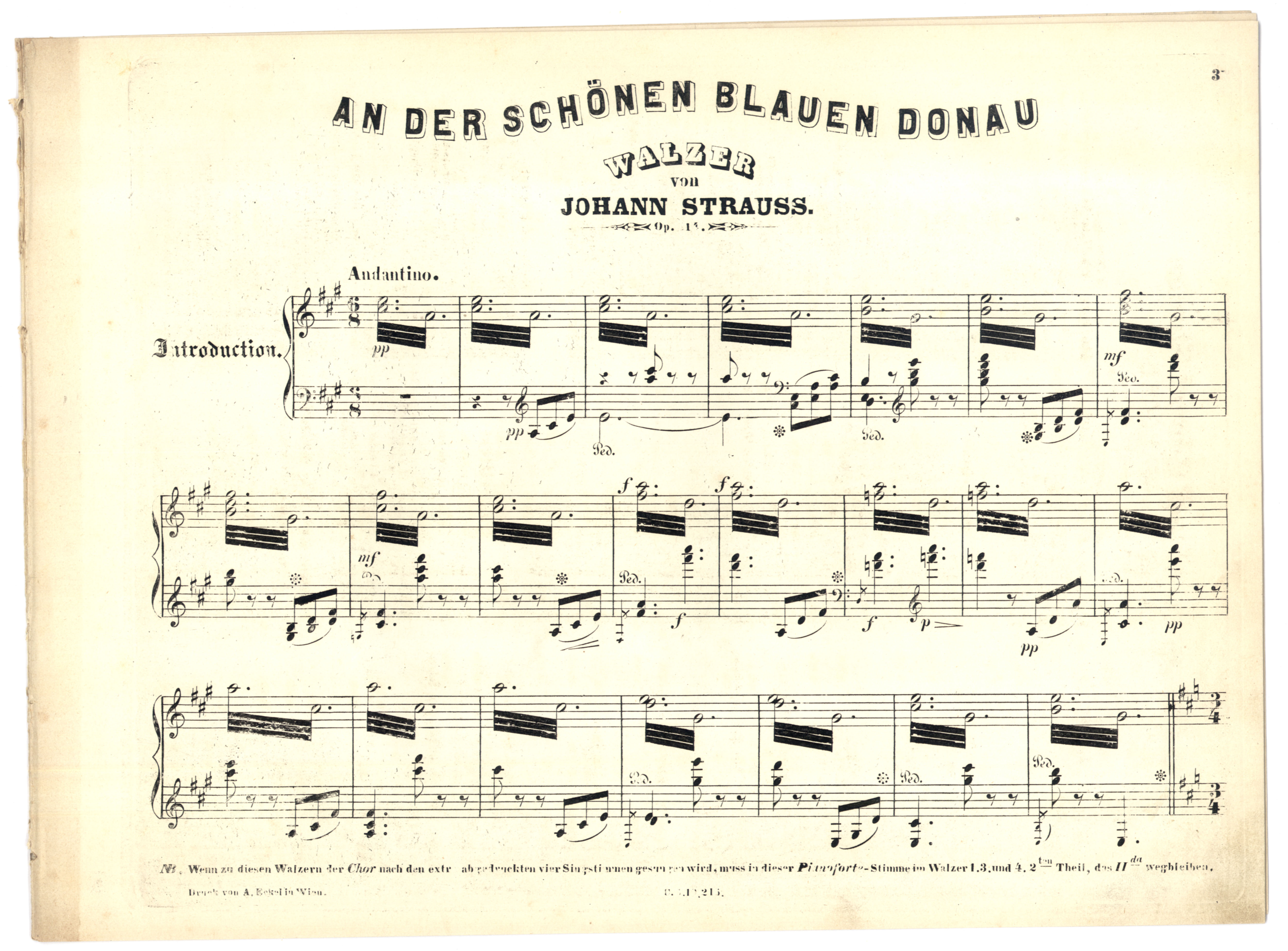 Johann Strauss II. The Blue Danube, 1st ed. by Carl Anton Spina